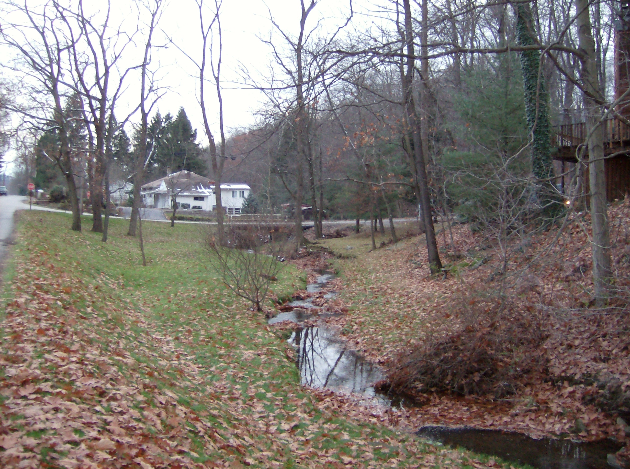 Along Squaw Run just north of the intersection of Mount Hope and Squaw Run Roads — visible in the distance and on the far left side respectively — in northwestern Wayne Township, Lawrence County, Pennsylvania, United States.